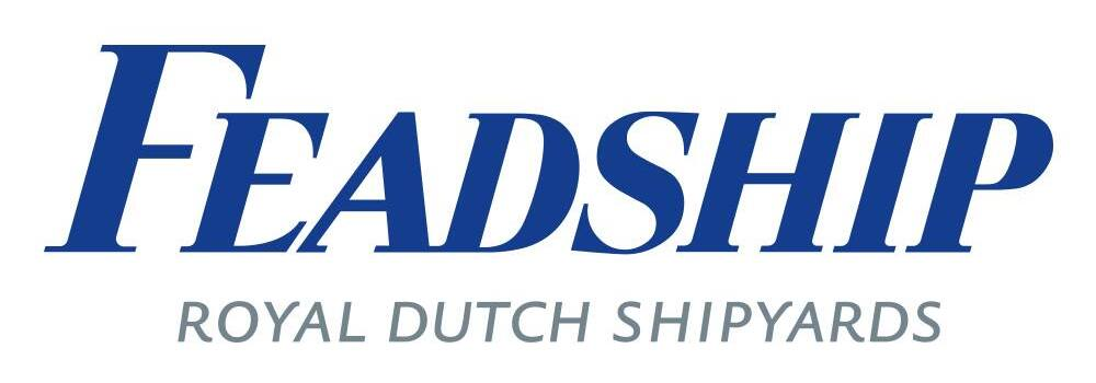 Feadship